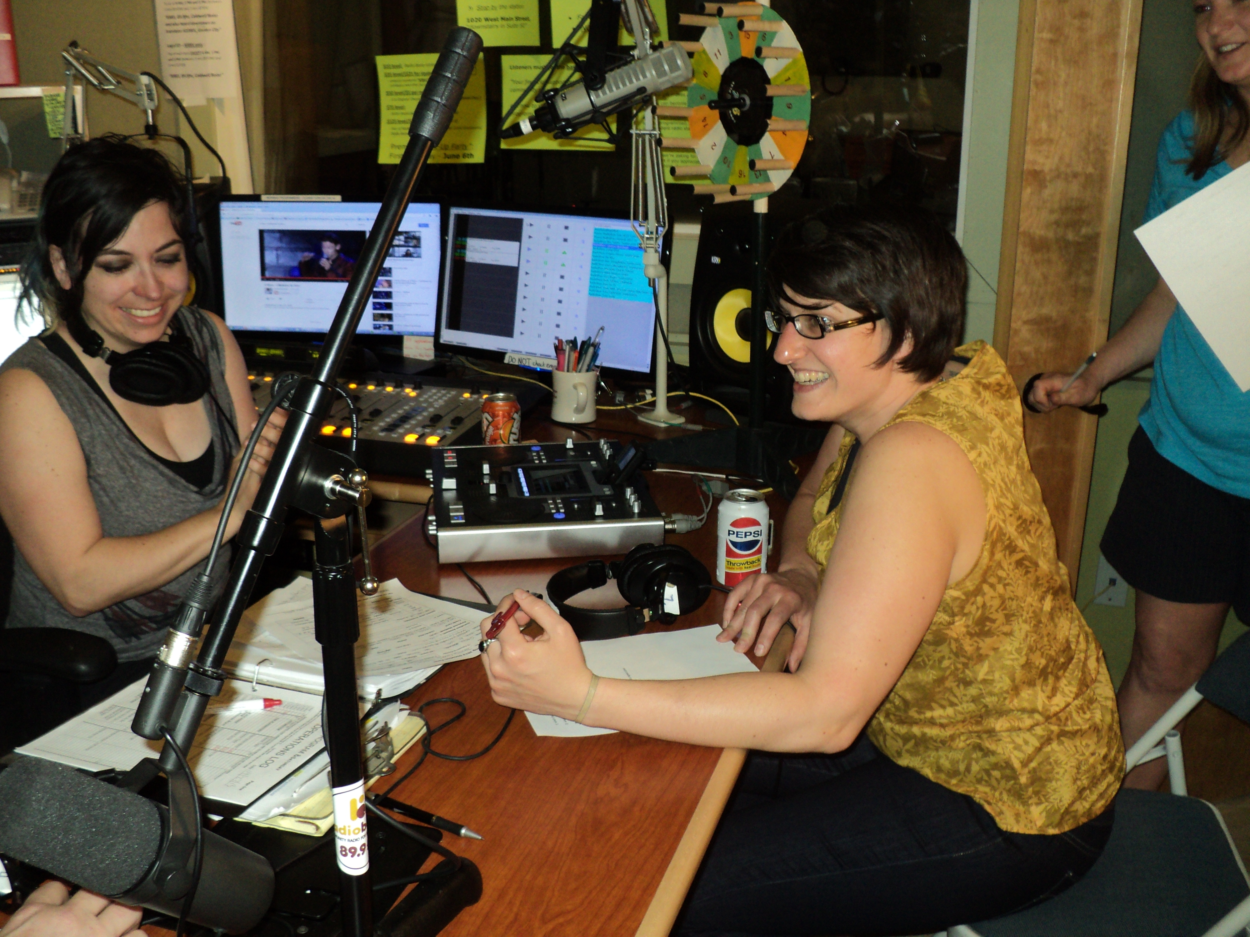 KRBX Radio Boise volunteers on Wendy Fox's program Tennis Court Disco during the community radio station's 2013 spring pledge drive.